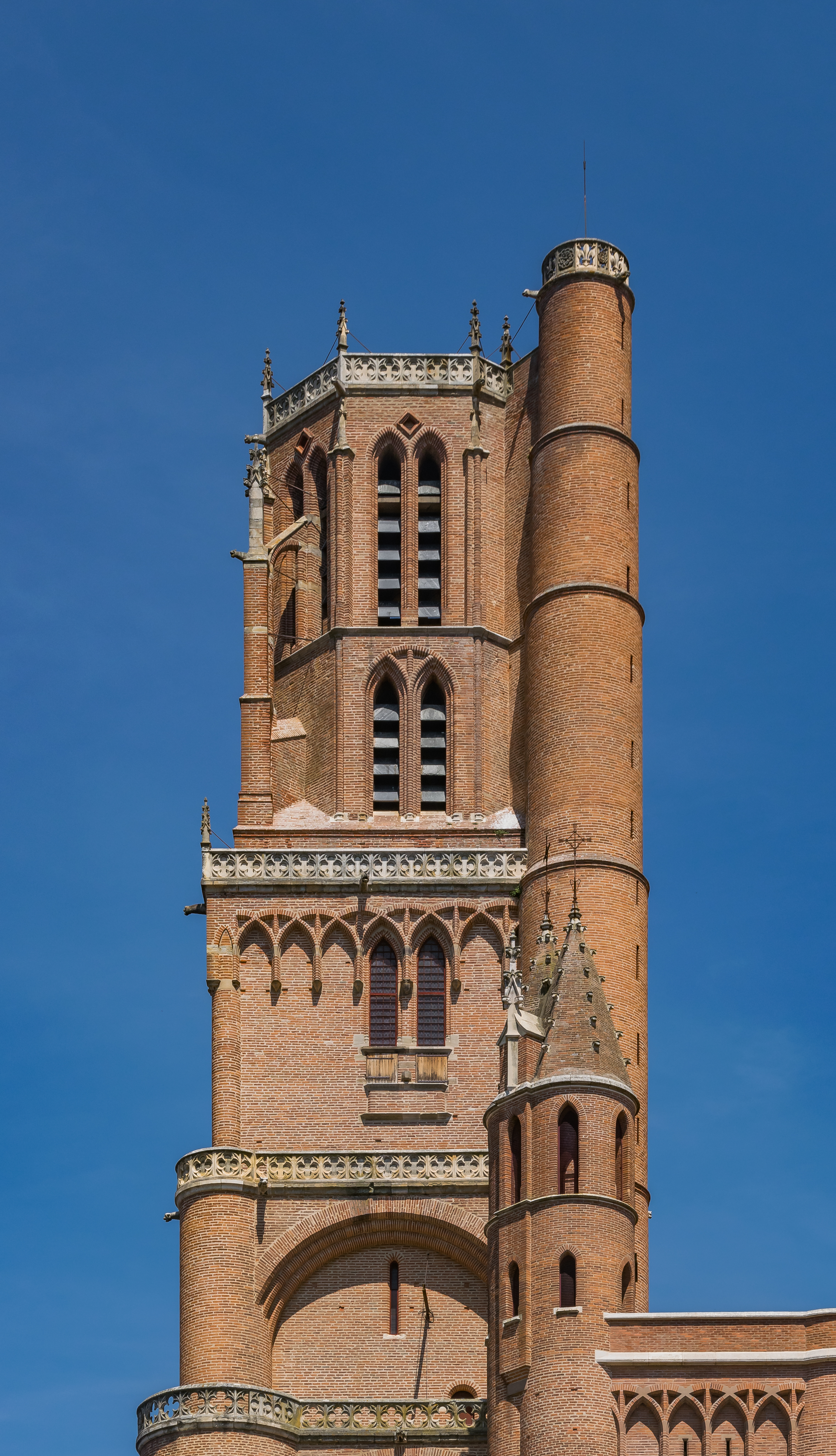 Bell tower of the Saint Cecilia Cathedral of Albi, Tarn, France This place is a UNESCO World Heritage Site, listed as Cité épiscopale d'Albi.